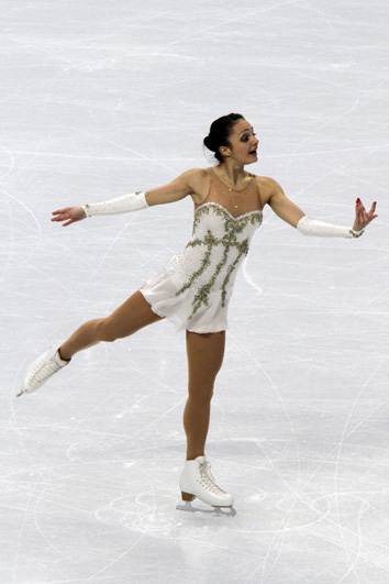 Sarah Meier at the 2010 Winter Olympics.